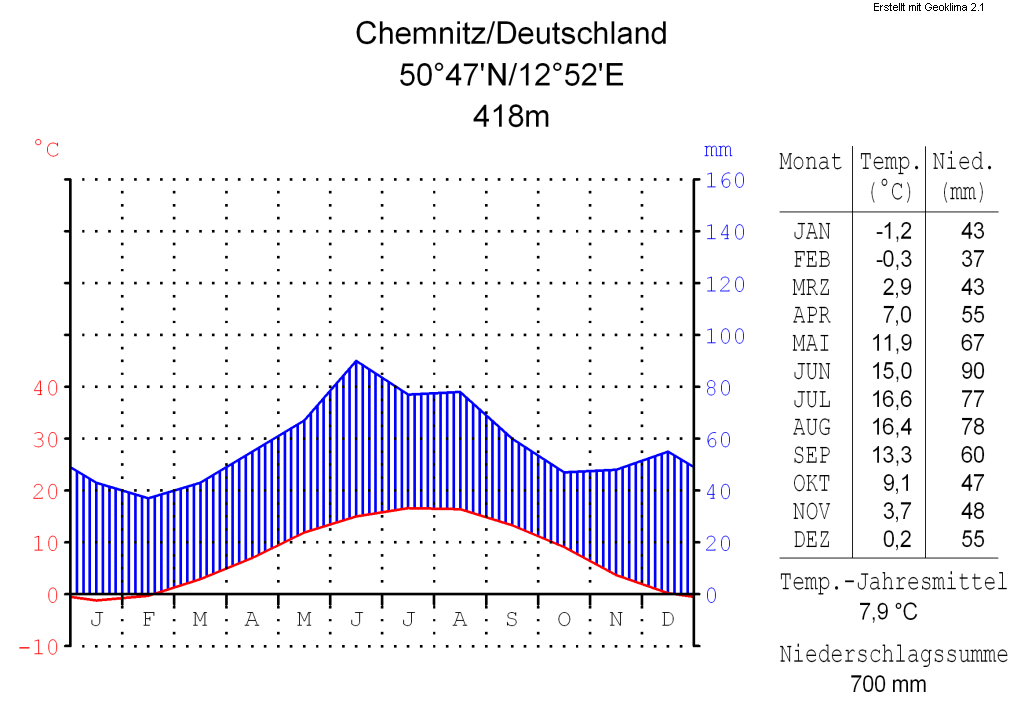 climate chart in the format by Walther and Lieth, metric, °Celsisus and millimeters, made with Geoklima 2.1